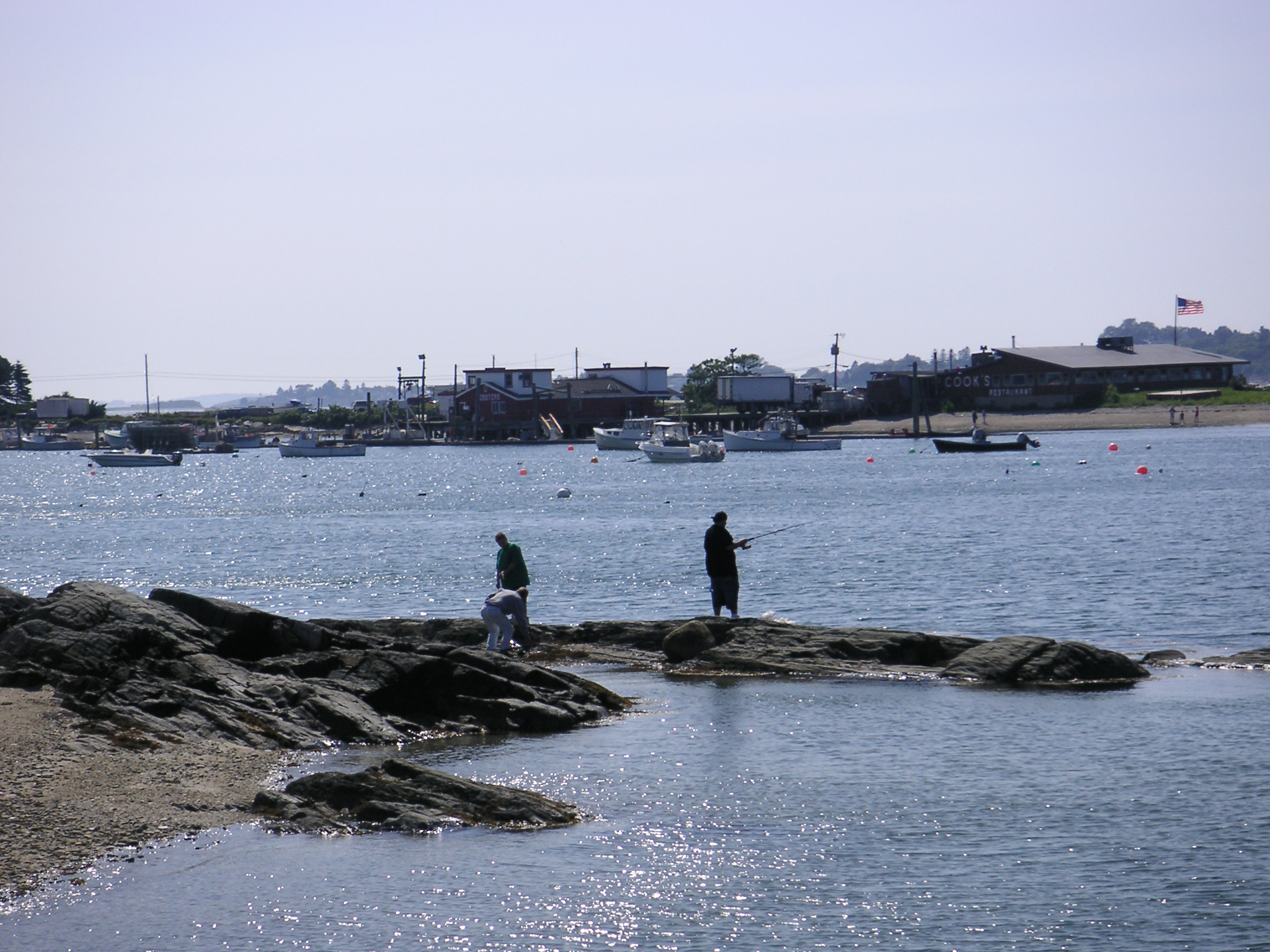 View of Cook's Lobster House, a Bailey Island, Maine, landmark, seen across Will's Gut from Orr's Island, Maine.